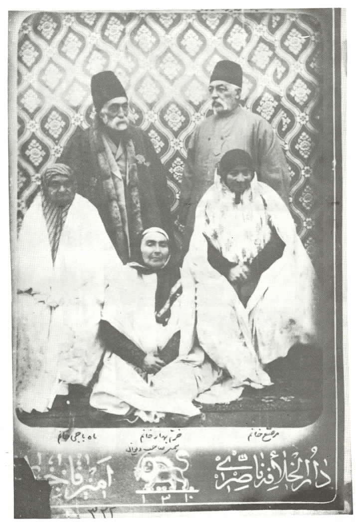 Children of Fathali Shah Qajar